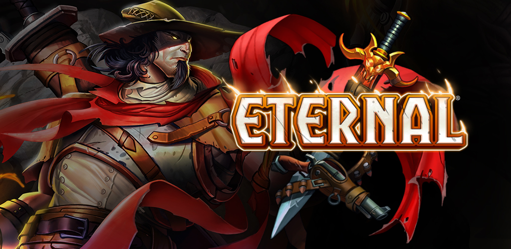 Eternal Logo against Character Art Background